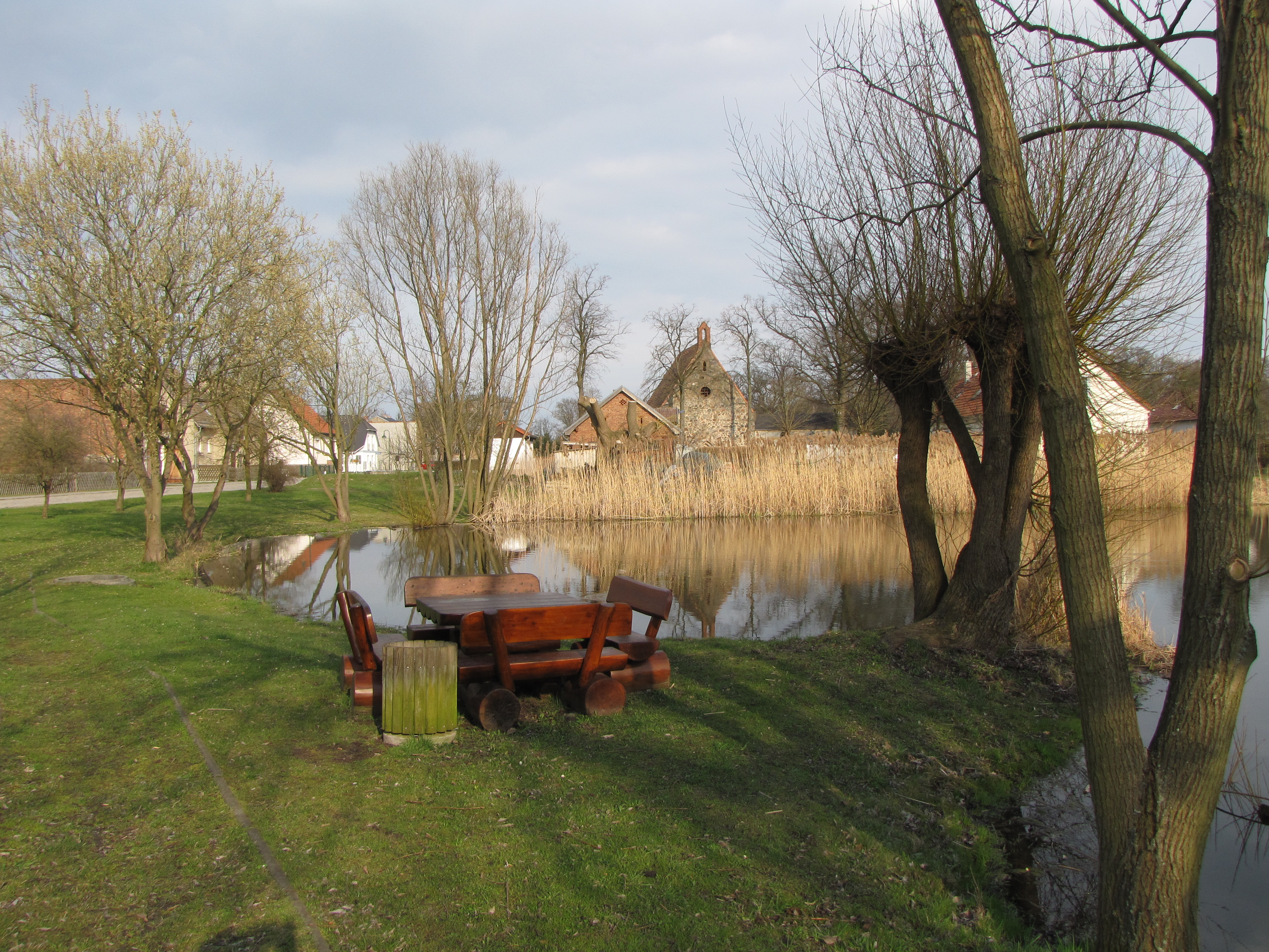 Brusendorf, Stadt Mittenwalde, Landkreis Dahme-Spreewald, Brandenburg, Deutschland, Blick über einen der beiden Dorfteiche auf die Kirche